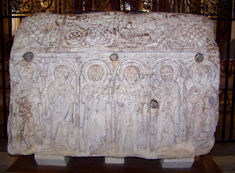 8th Century Saxon carving from the original church Taken by kev747